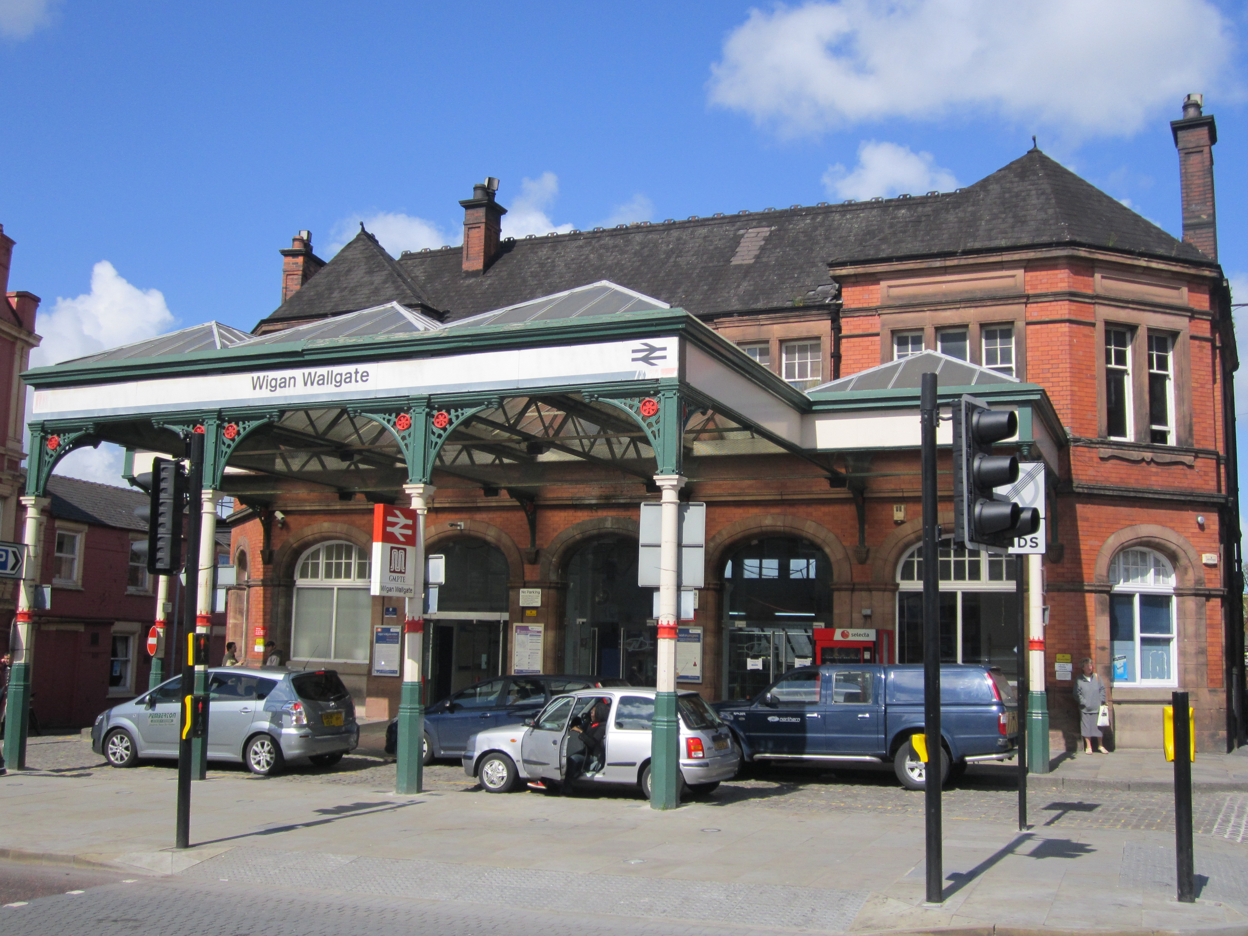 Frontage of Wigan Wallgate railway station, England.